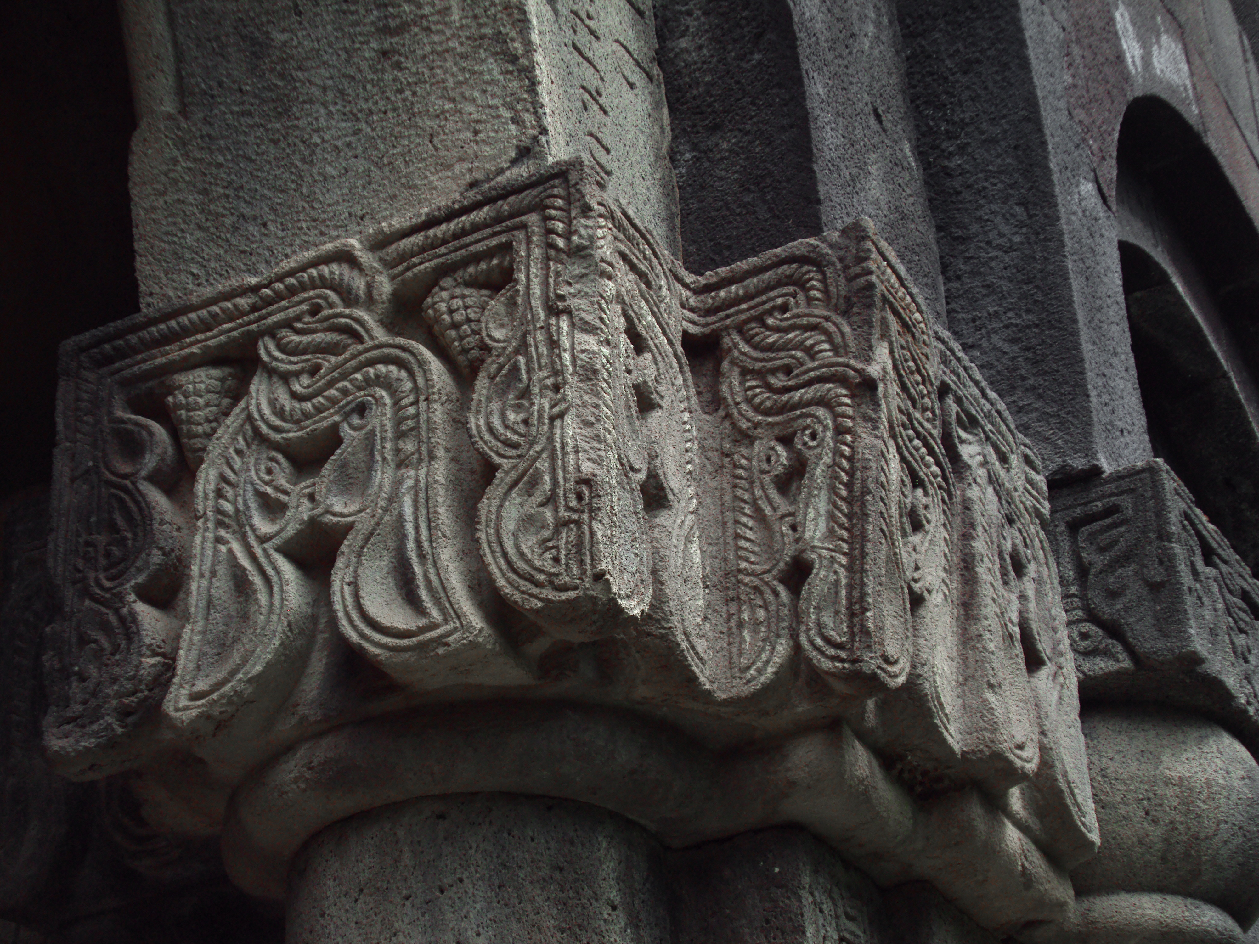 Monastery complex Bgheno-Noravank, 936-1062, chapiter